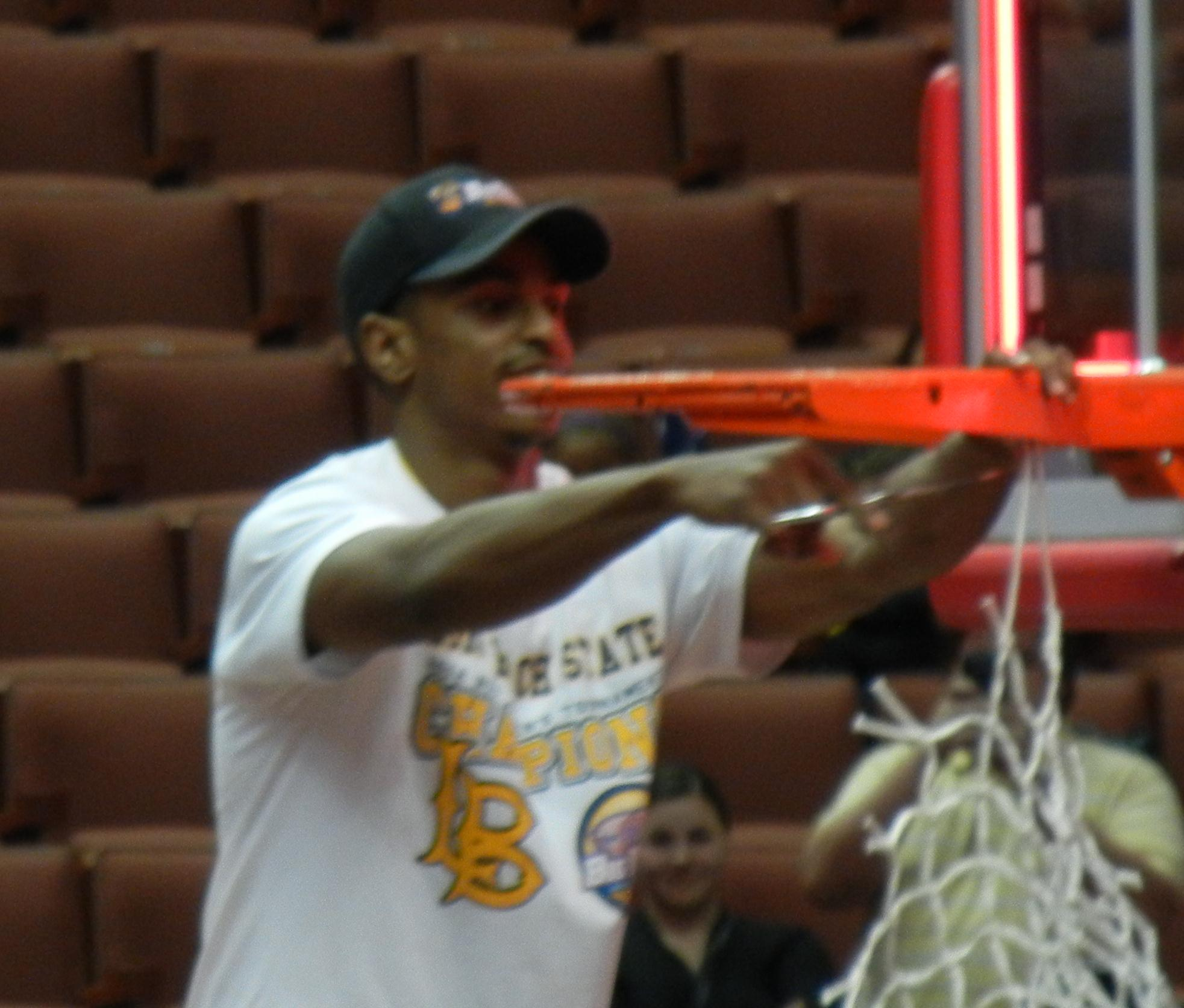 Casper Ware from Long Beach State cutting down the net after winning the 2012 Big West Tournament.